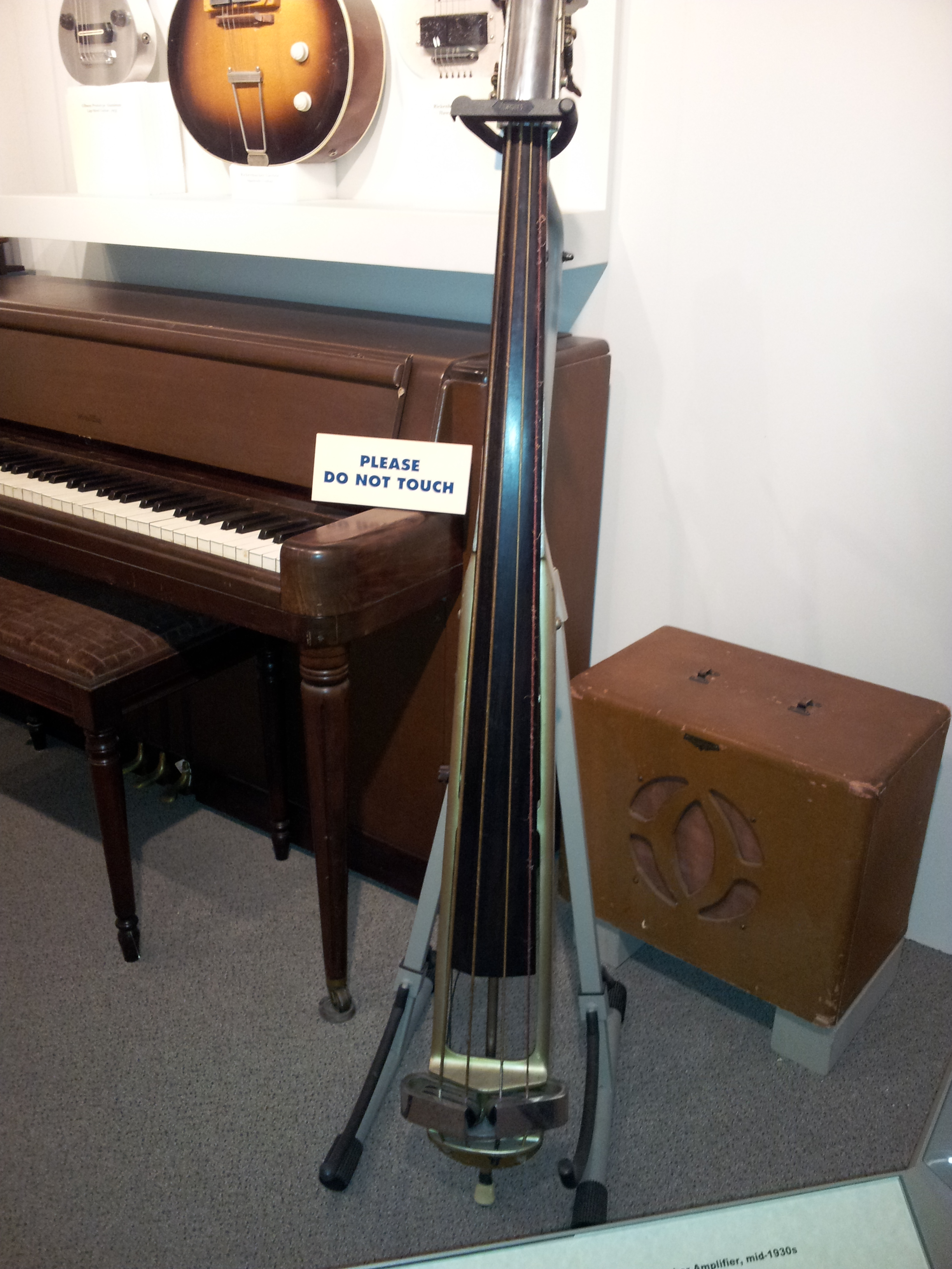 Rickenbacker electric upright bass (1935), Amplifier (mid 1930s), Console piano, Museum of Making Music “The Rickenbacker Bass, 1935. Rickenbacker's George Beauchamp thought acoustic sound chambers were unnecessary. This upright magnetic horseshoe up is split into two section to accommodate the curvature of the fingerboard. In order for the pickup to function properly, the gut strings are wrapped with a fine ferrous or steel wire, that can be magnetized when strings pass between the magnet and the coils.”—Allan Carey